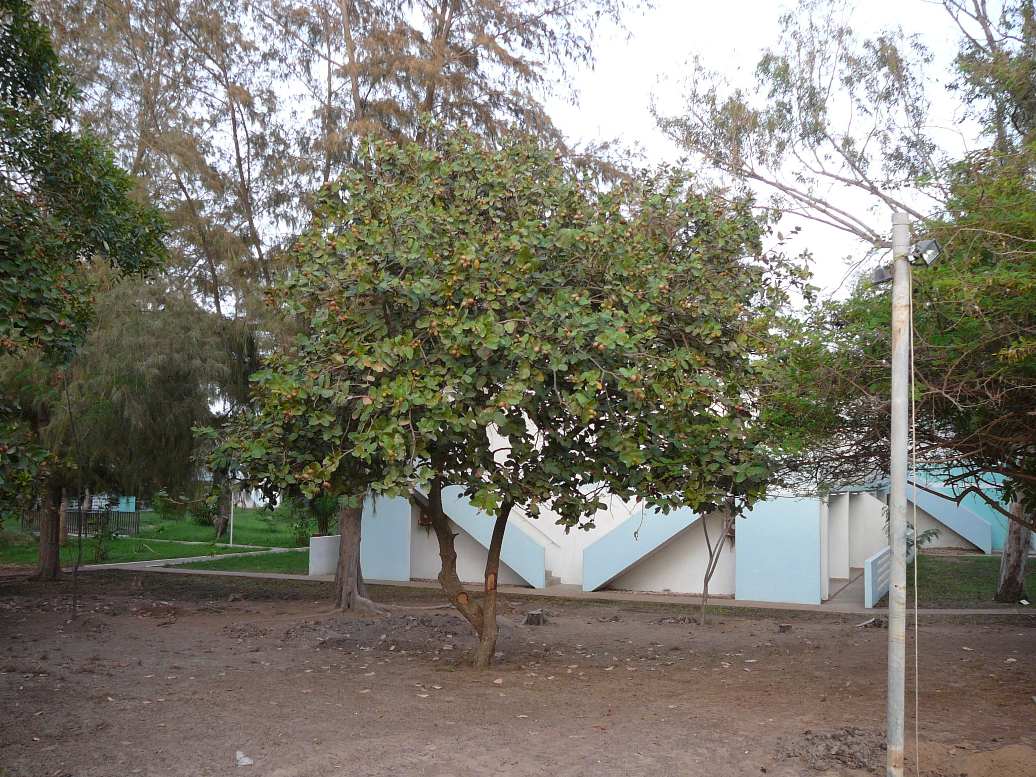 Neocarya macrophylla